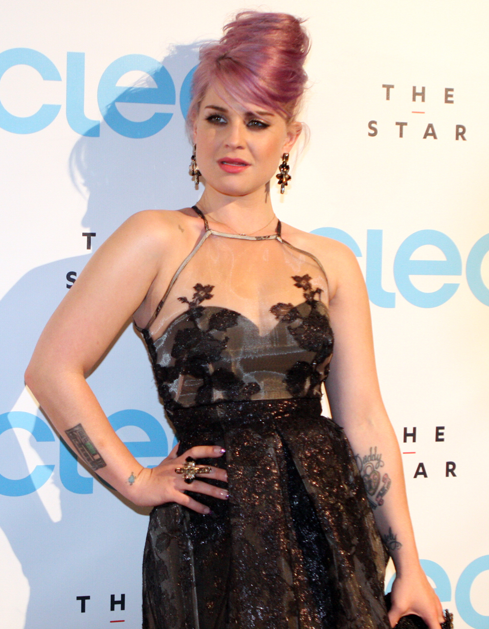 Kelly Osbourne special guest at The Star - Celebrity magazine Cleo contributor whips up a storm at The Star, The Darling and Cherry Bar 2013.